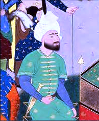 Painting of Munzir in The Shahnama of Shah Tahmasp